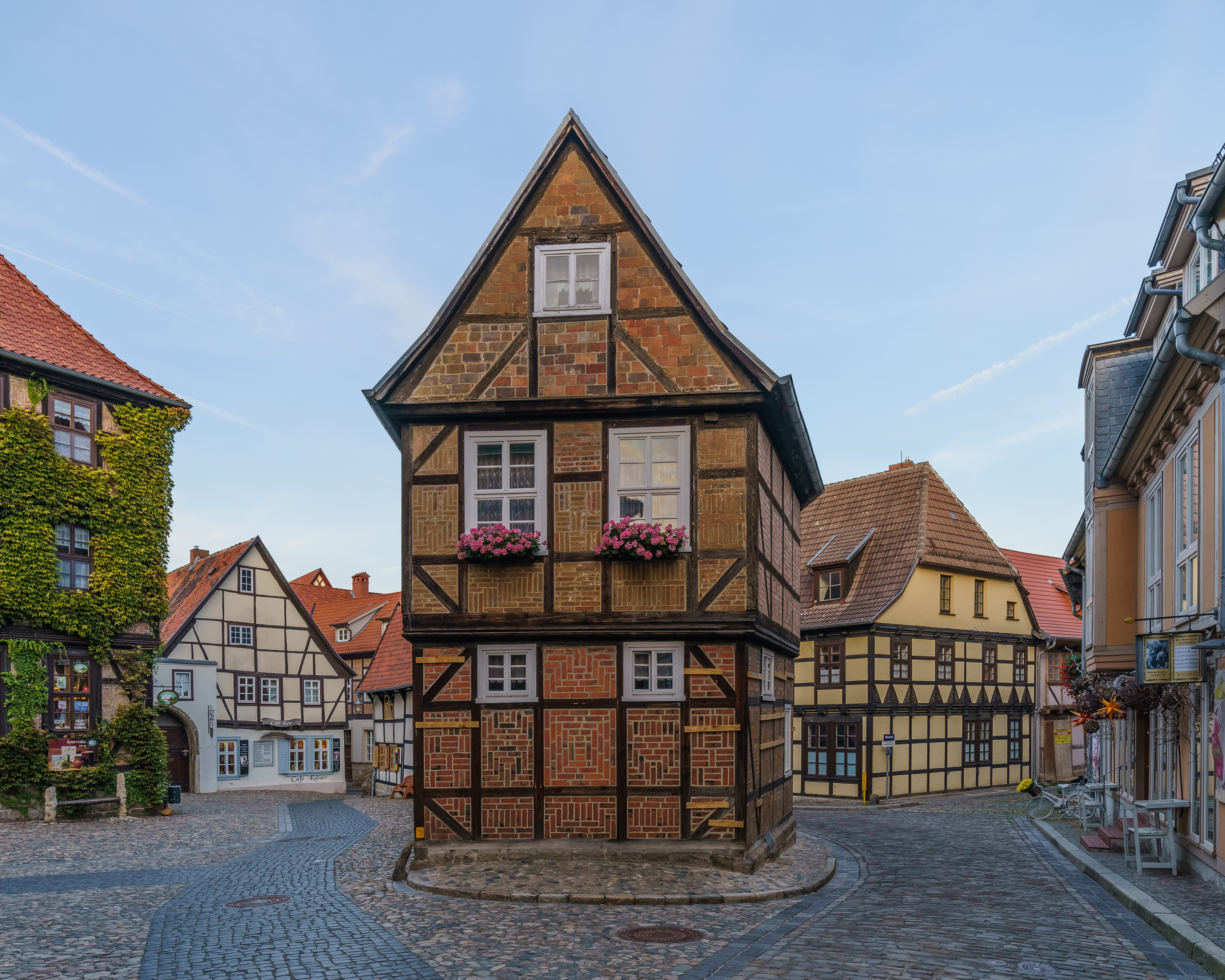 Old Town in Quedlinburg, Germany